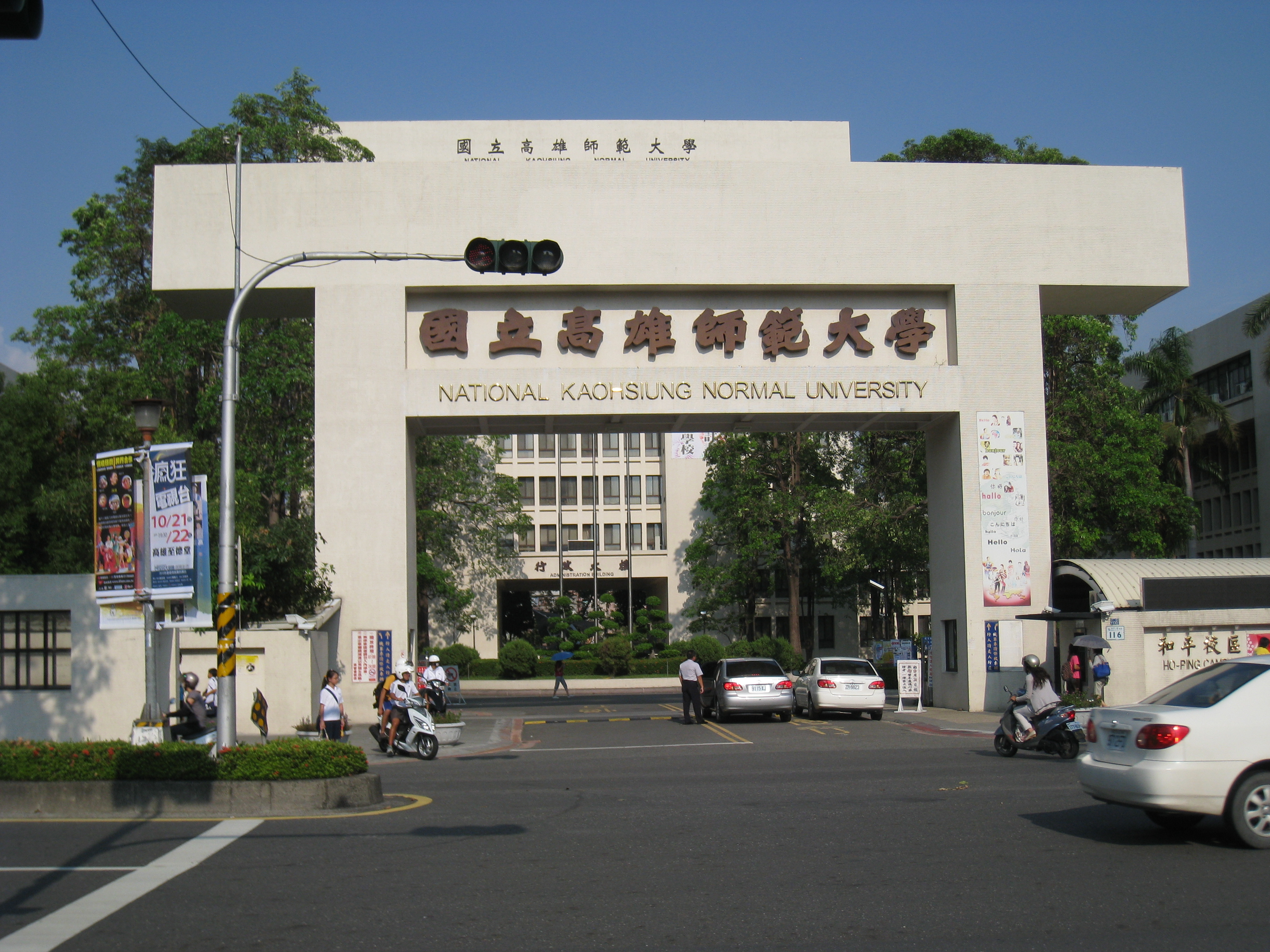 The main gate of Ho-Ping Campus, National Kaohsiung Normal University.Bân-lâm-gú: Kok-li̍p Ko-hiông Su-huān Tāi-ha̍k ê tuā-mn̂g.中文（台灣）: 國立高雄師範大學和平校區大門，位於臺灣高雄市苓雅區和平一路116號。